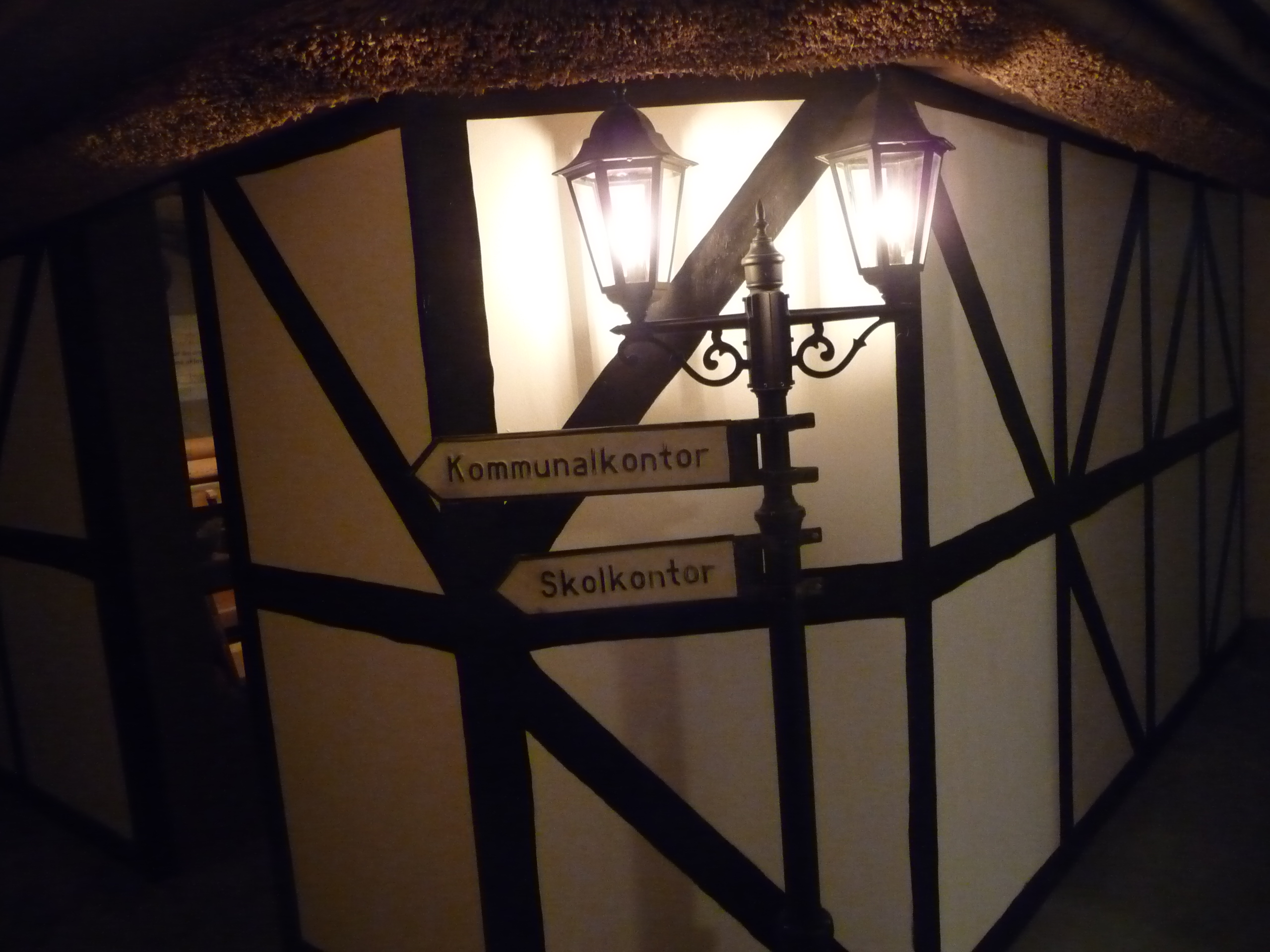 "Bredarörsgården", Kivik's local historic museum.